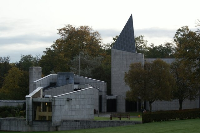 Mortonhall Crematorium